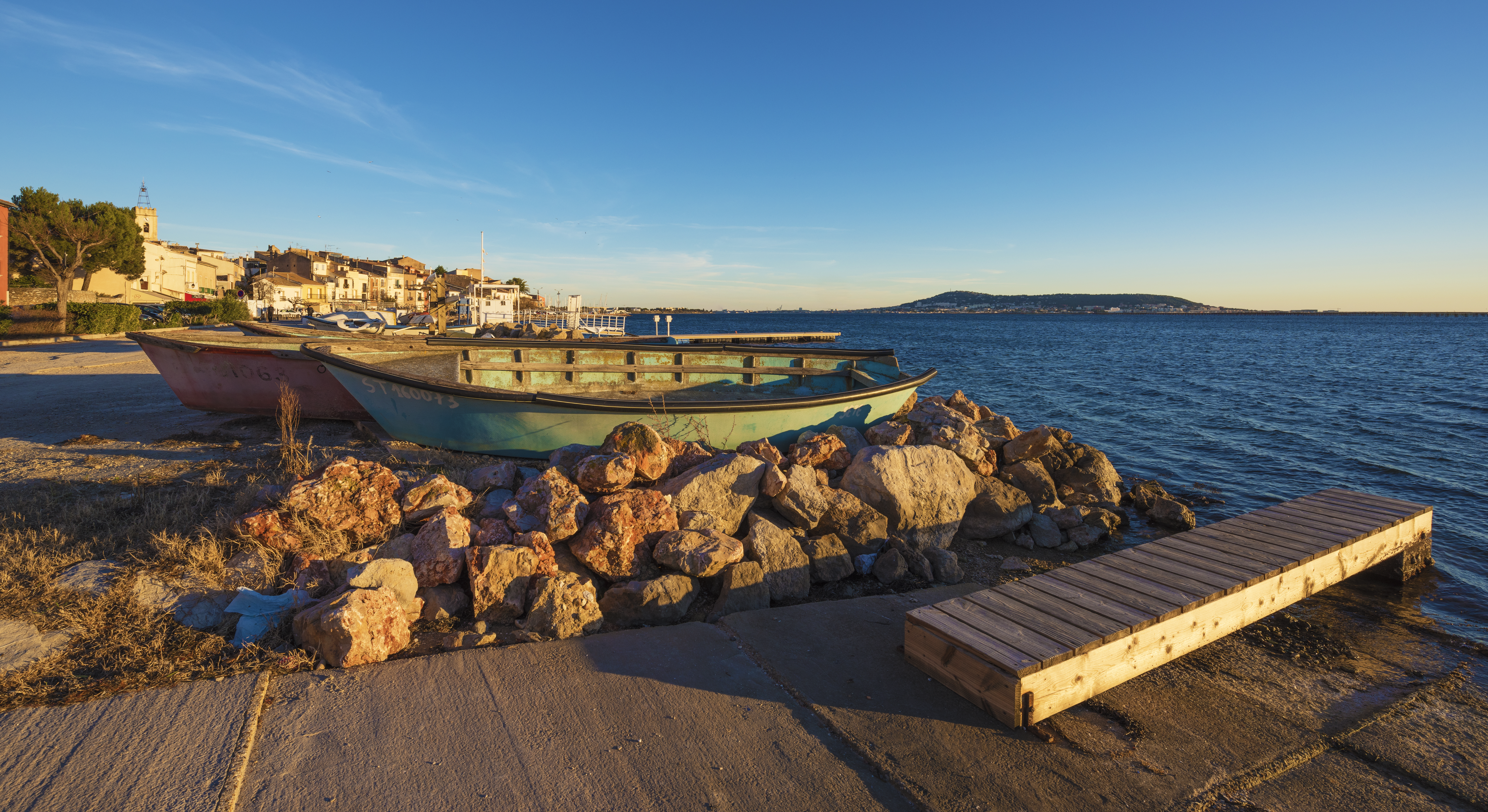 Near the Étang de Thau in Bouzigues. In the background on the right: Sète and the Mount Saint-Clair. Hérault, France.